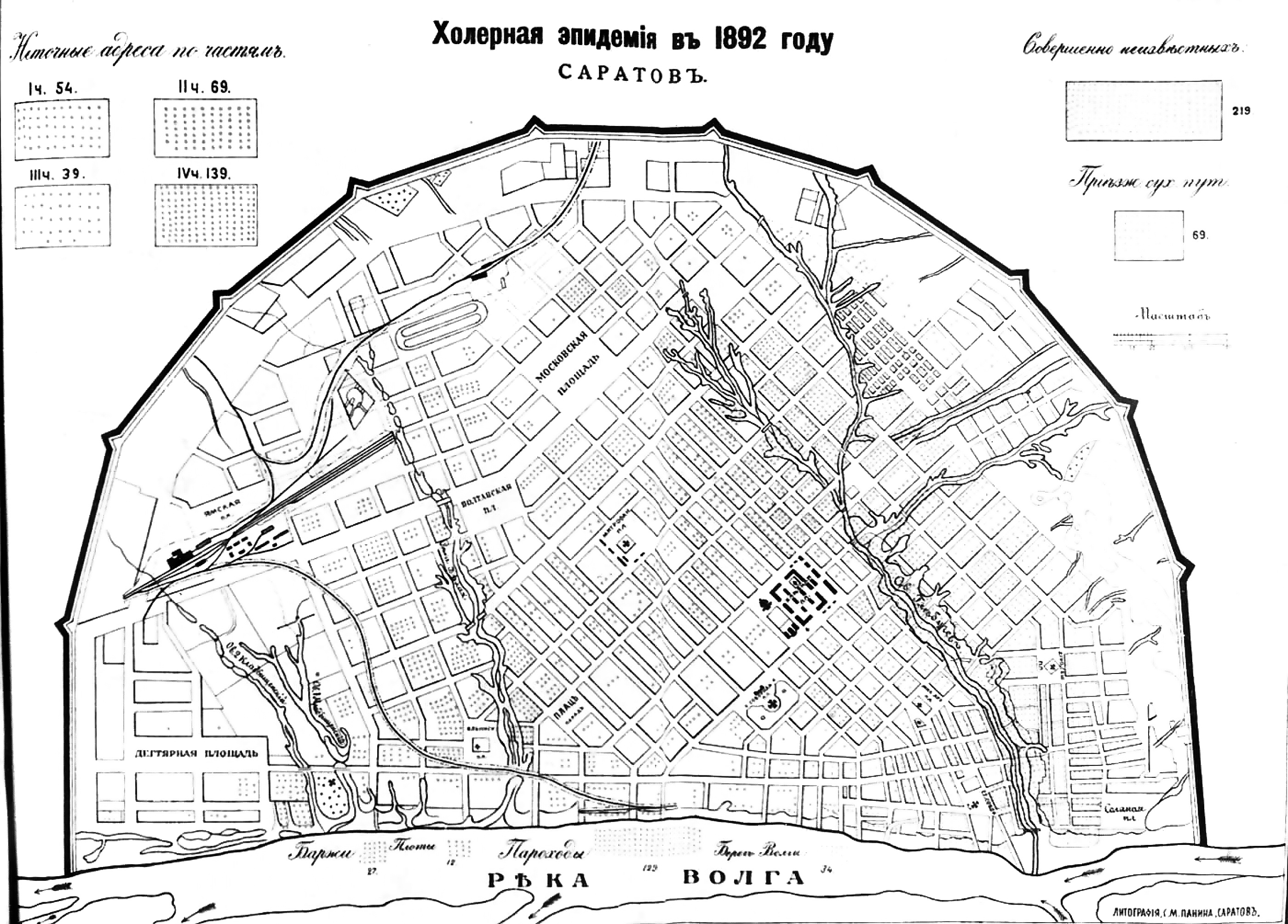 Contemporary map of the 1892 cholera outbreak in the city of Saratov (Russia). Individual cases (when properly localized) are marked as dots in each block. Individual cases with unknown or uncertain localization, and out-of-town patients who traveled by land are shown and counted in the squares in upper right and upper left. Dotted areas in the bottom are for cases that occured on the Volga river ships, barges etc.